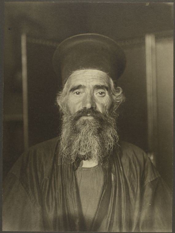 Digital ID: 418050. Sherman, Augustus F. (Augustus Francis) -- Photographer. [ca. 1906-1914] Notes: Identification from Peter Mesenholler 'Augustus F. Sherman: Ellis Island Portraits 1905-1920' (c1905) p.34. Source: William Williams papers / Photographs of immigrants ( Repository: The New York Public Library. Manuscripts and Archives Division. See more information about and others at Persistent URL: Rights Info: No known copyright restrictions; may be subject to third party rights (for more information